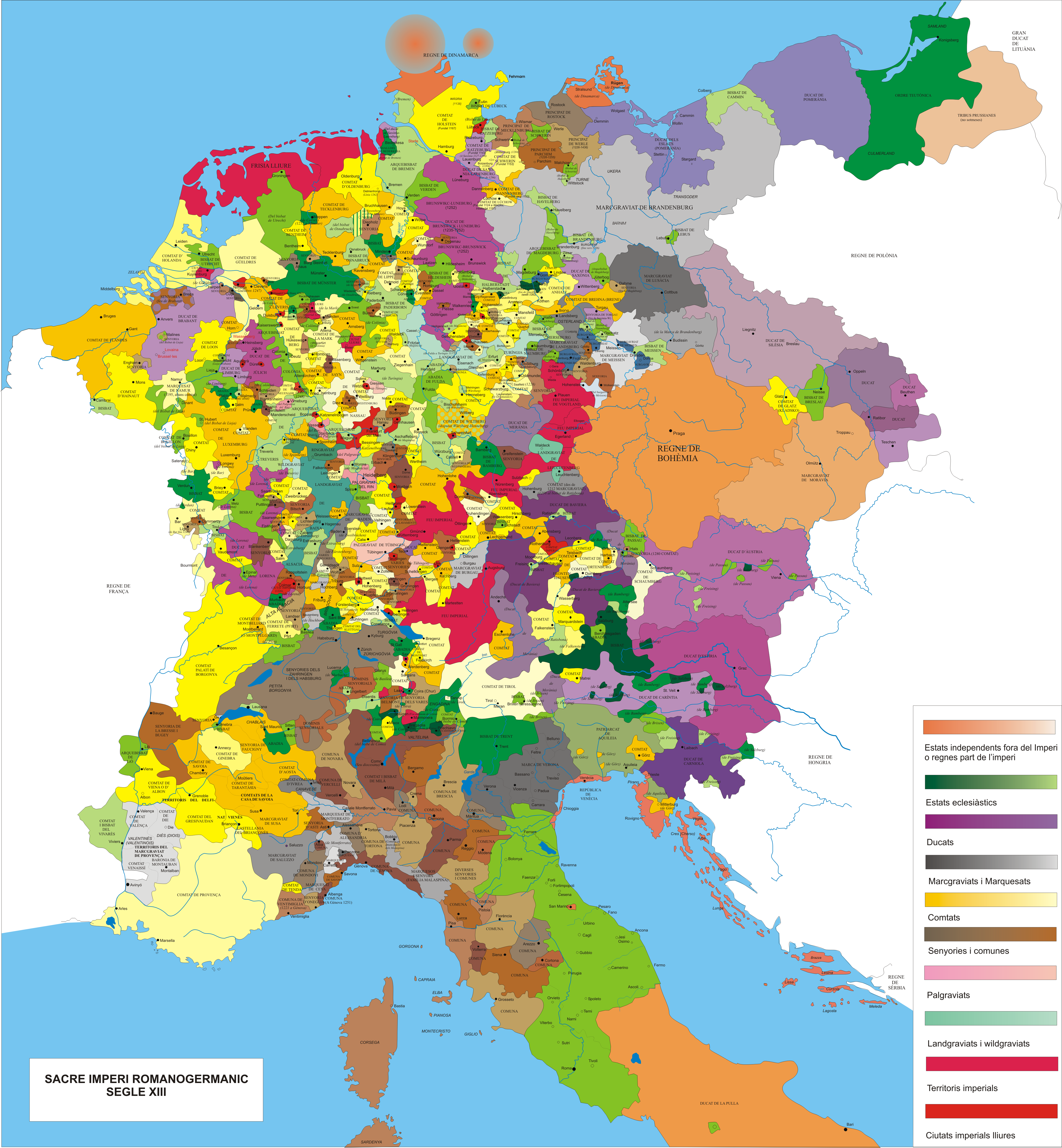 detailed map